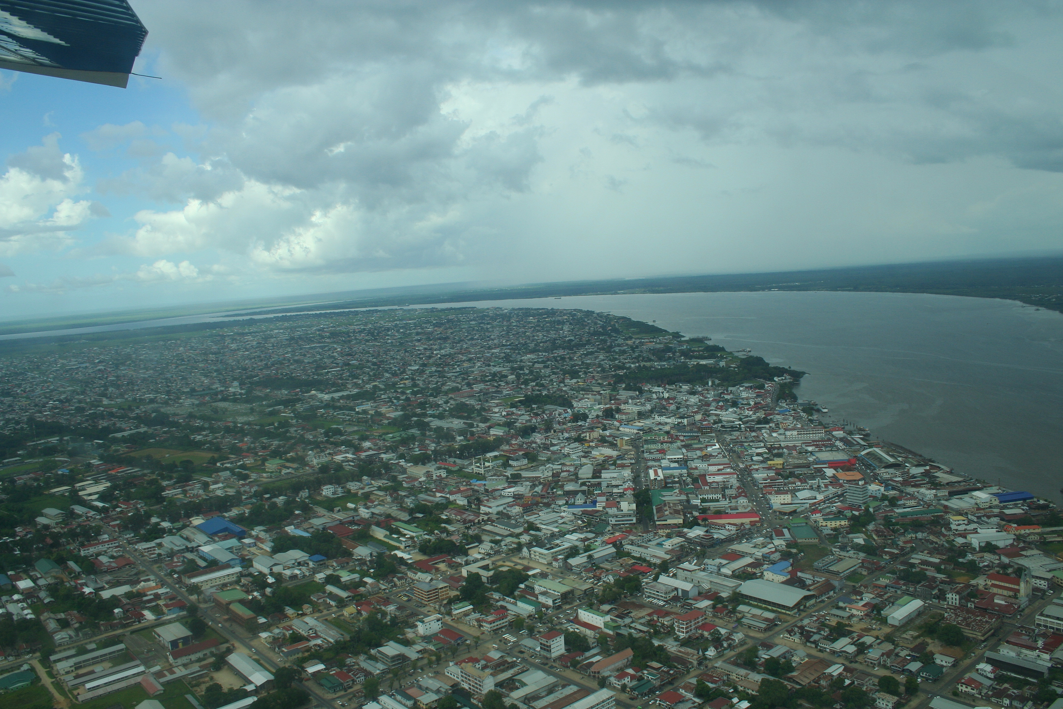 Aerial view of Paramaribo